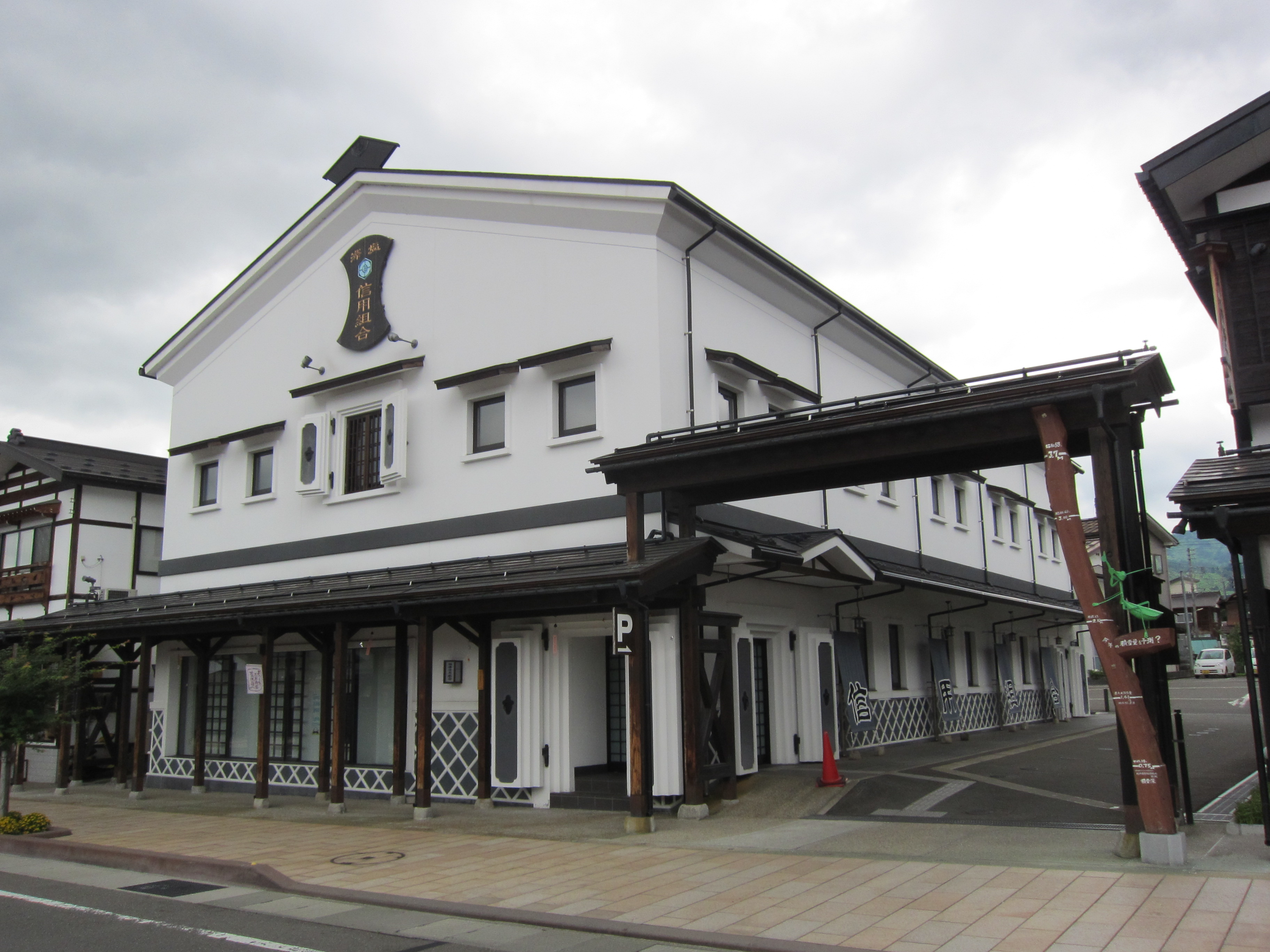 Shiozawa Credit Union Head Store